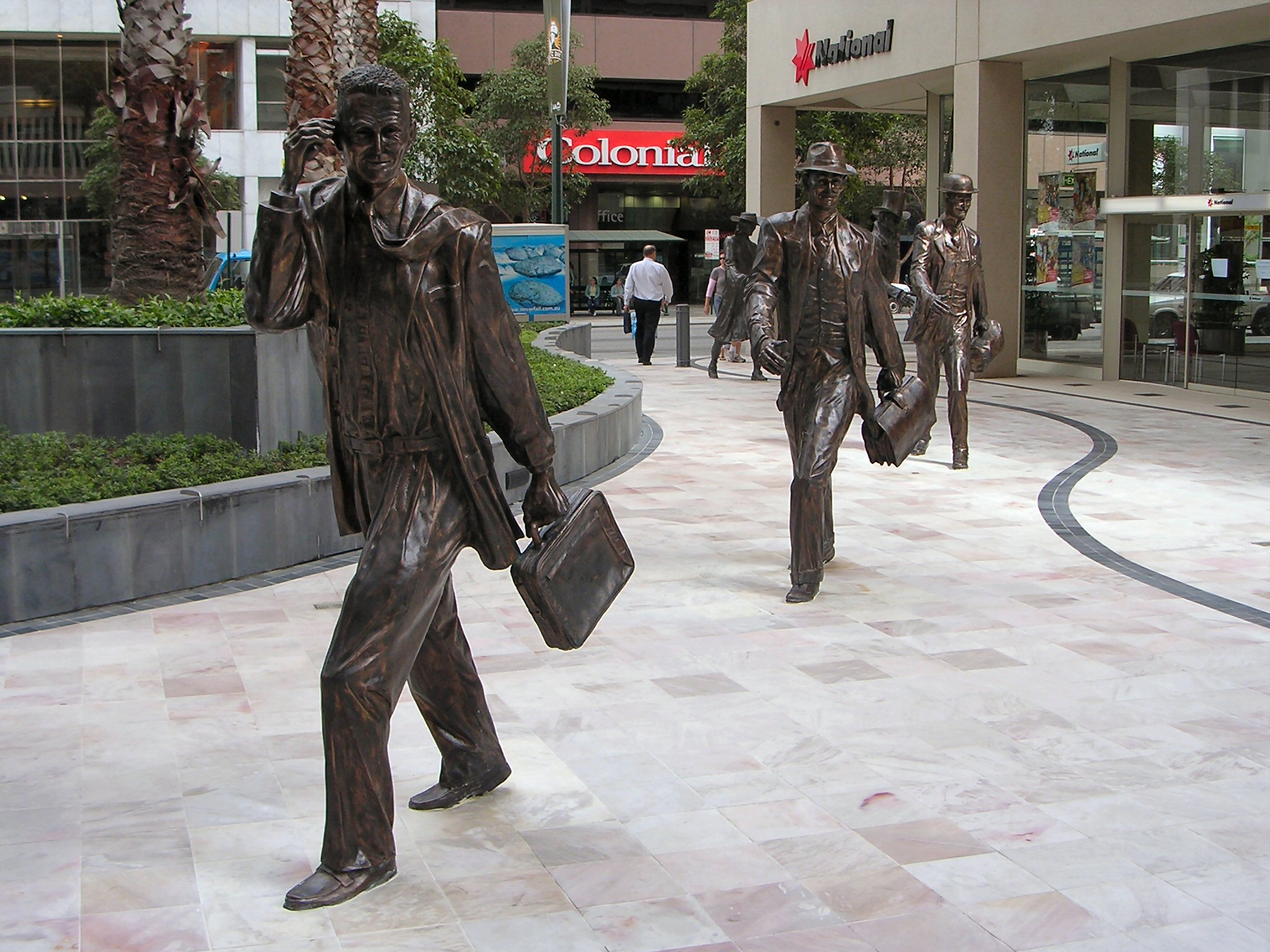 Bronze sculptures in the forecourt of St Martins Tower in Perth, Western Australia. They reflect the evolution of businesspeople over time.